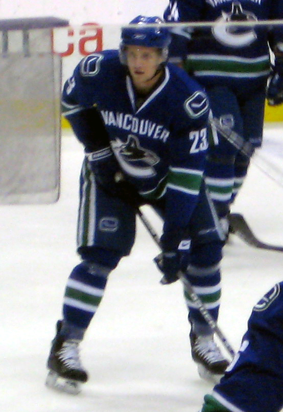 Vancouver Canucks defenceman Alexander Edler